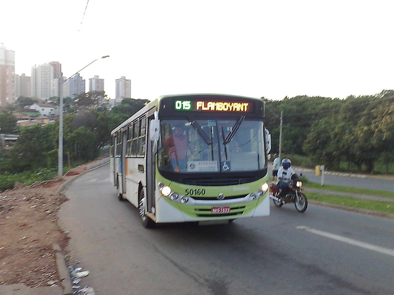 The new model bus (#50160) with VW Volksbus chassis that started running on Goiânia with the new contract.